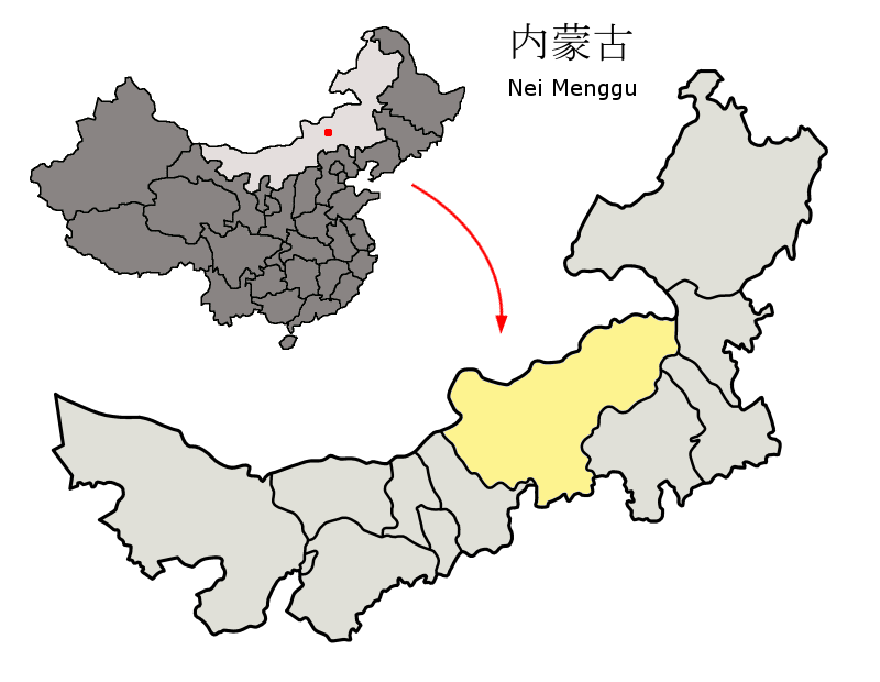 Location of Xilin Gol League (yellow) within Inner Mongolia Autonomous Region of China Map drawn in november 2007 using various sources, mainly : Inner Mongolia Autonomous Region administrative regions GIS data: 1:1M, County level, 1990 Inner Mongolia Counties map from